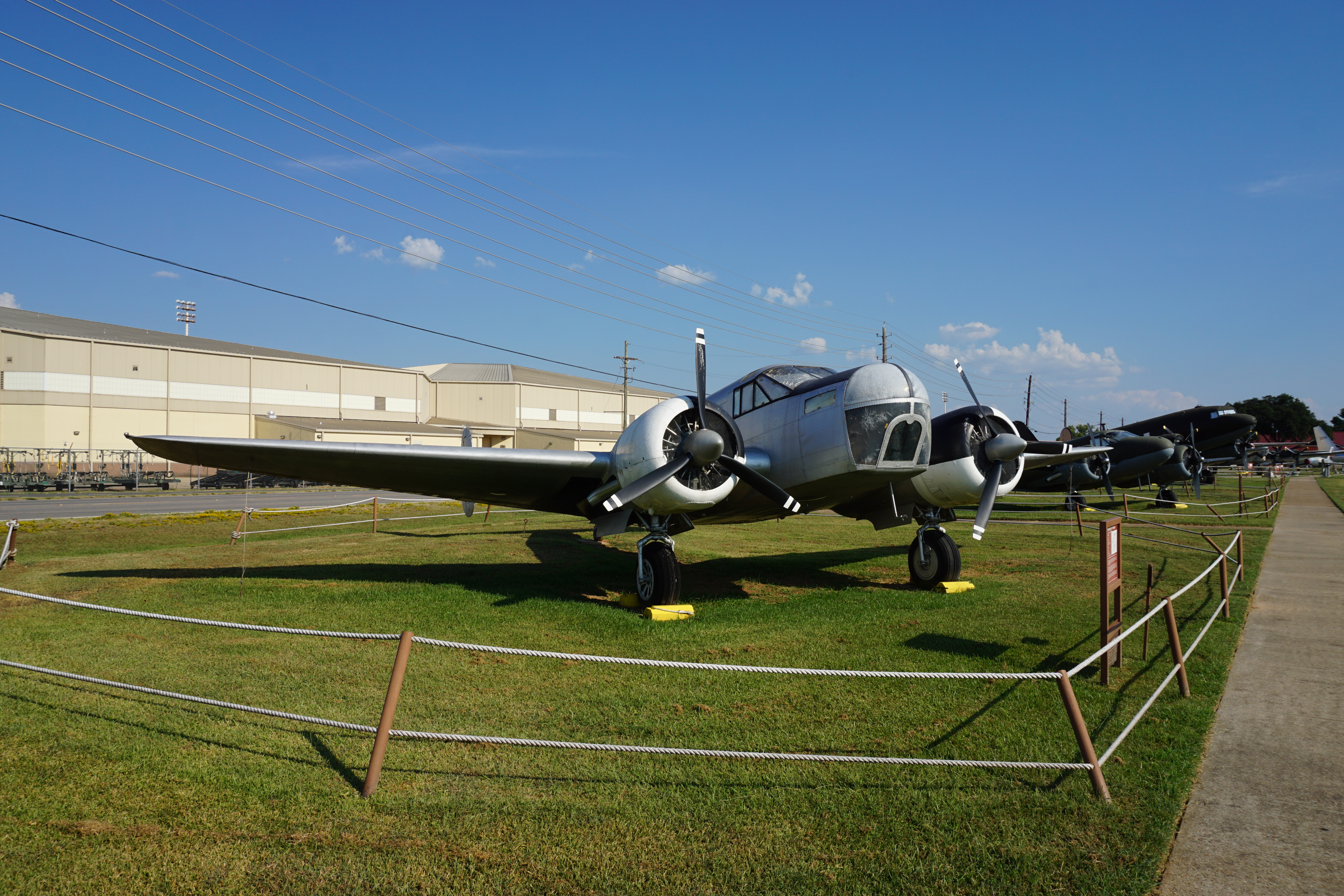 A Beechcraft AT-11 Kansan on display at the Barksdale Global Power Museum at Barksdale Air Force Base near Bossier City, Louisiana (United States).